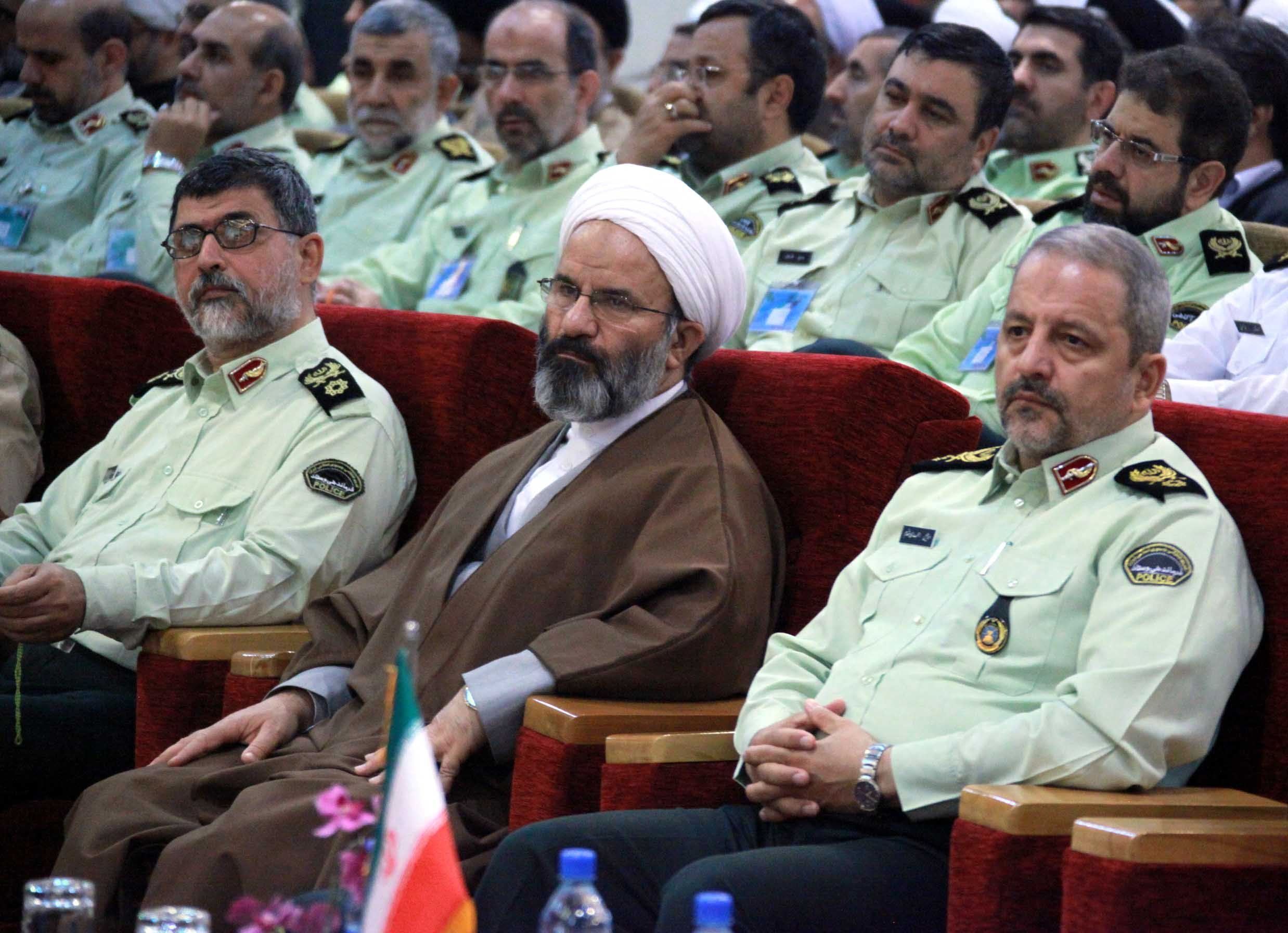 Iranian major commanders of national police of Iran in a conference. from left to right: unknown - Aboturab Bahrami - Esmaeil Ahmadi Moghaddam